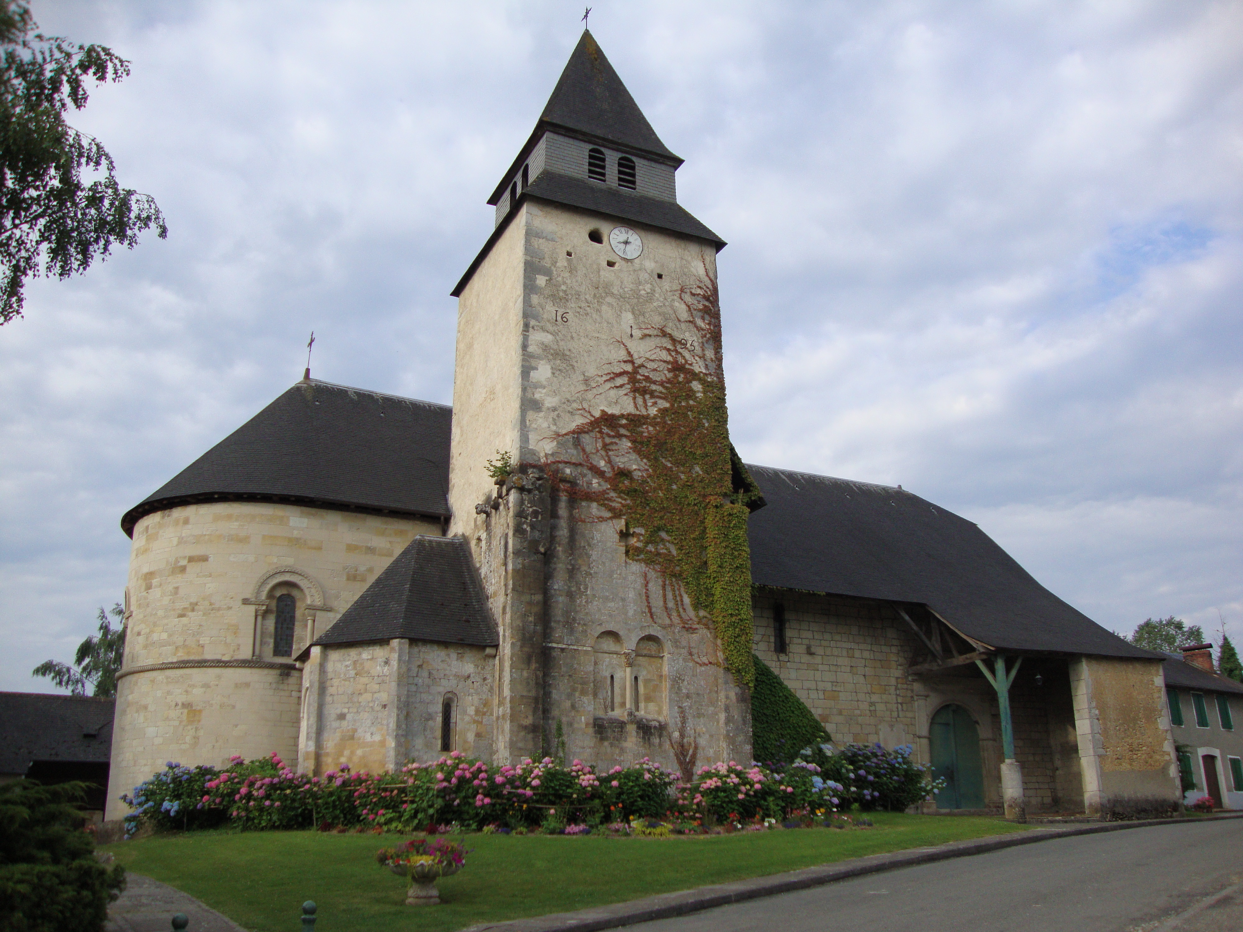 Lacommande (Pyr-Atl, Fr) church of the Commanderie, actual parish church